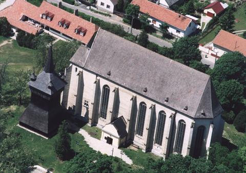 Nyírbátor, Hungary, temple, aerial photography